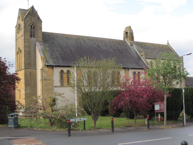 Photo: Church of the Ascension Malvern